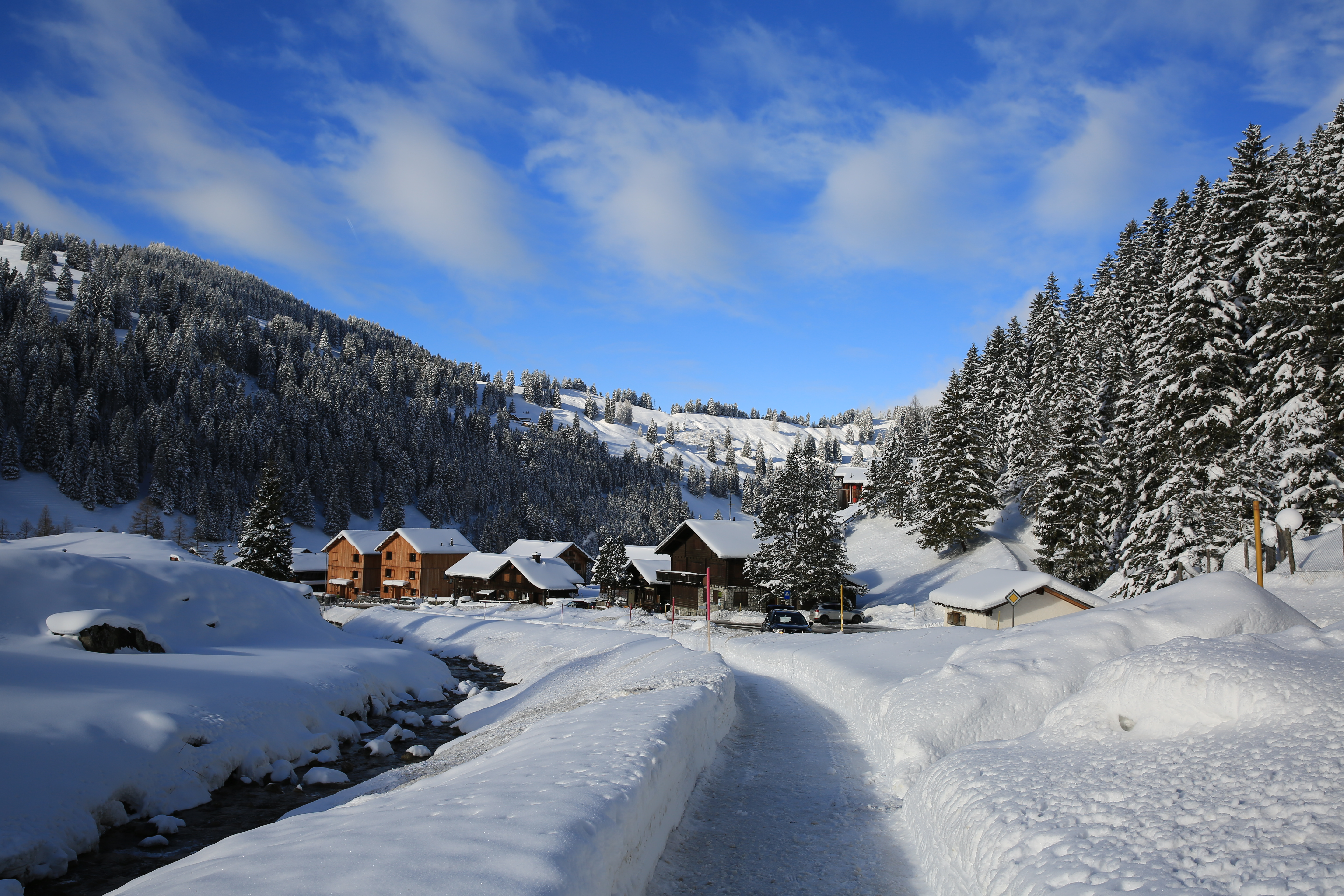 Winter in Steg